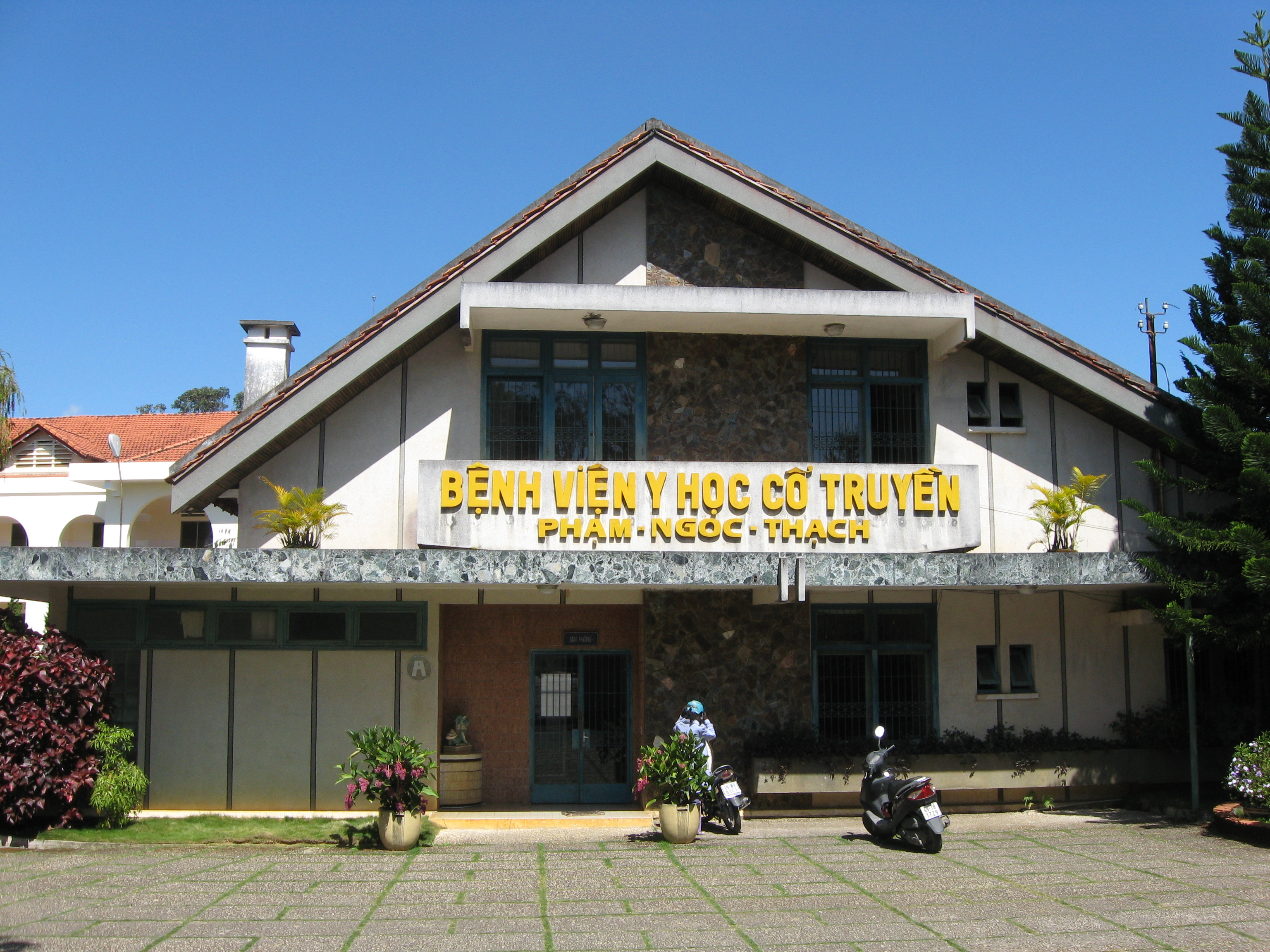 Pham Ngoc Thach Hospital